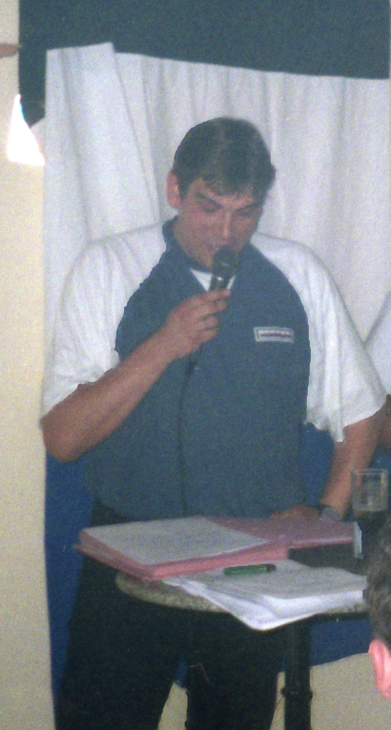 Sven Eggers (1999)